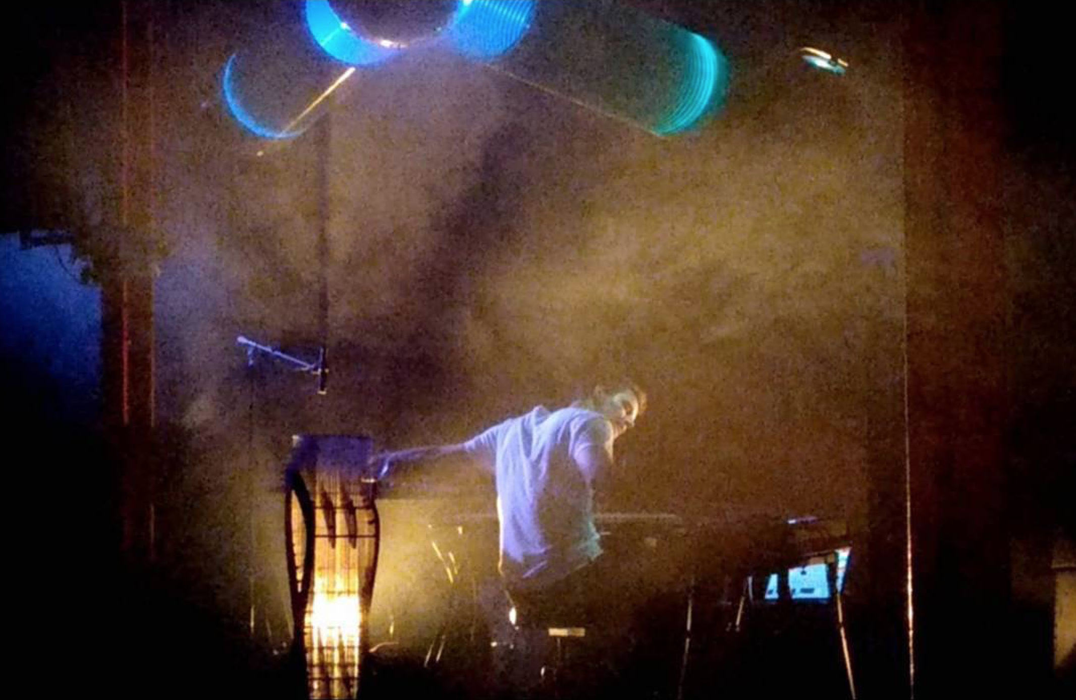 Friedrich Heinrich Kern performing live on glass harmonica, piano and electronics in Leipzig, 2 June 2017.